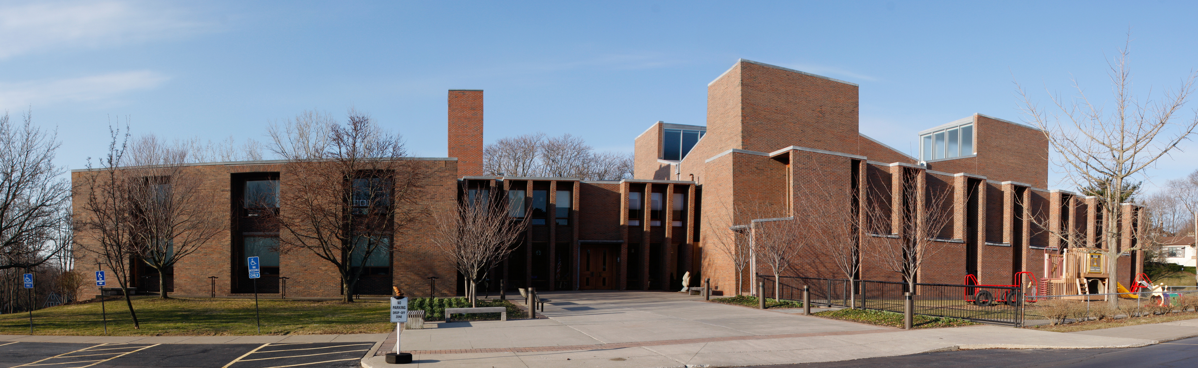 First Unitarian Church of Rochester NY North Side